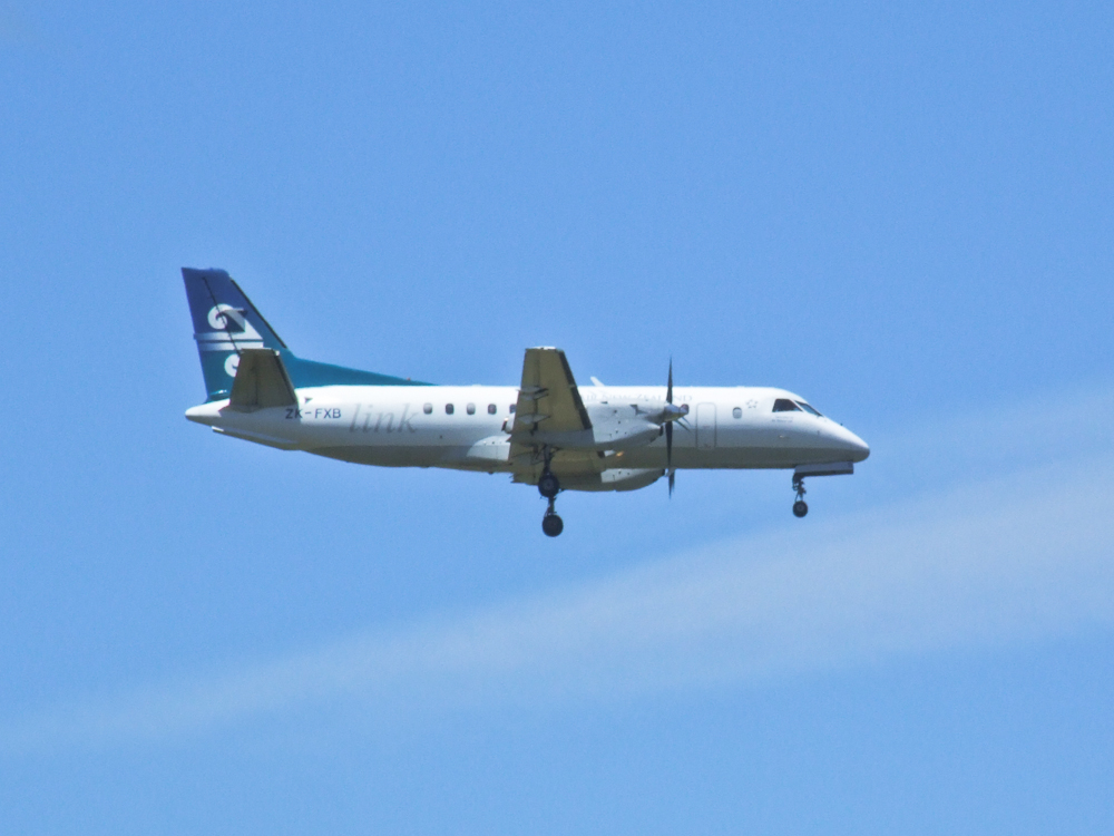 Air Nelson Saab 340 coming in for landing at Auckland International Airport.